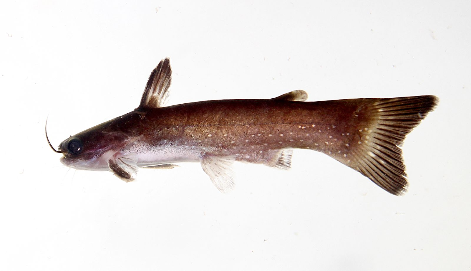 Auchenipteridae Tatia sp